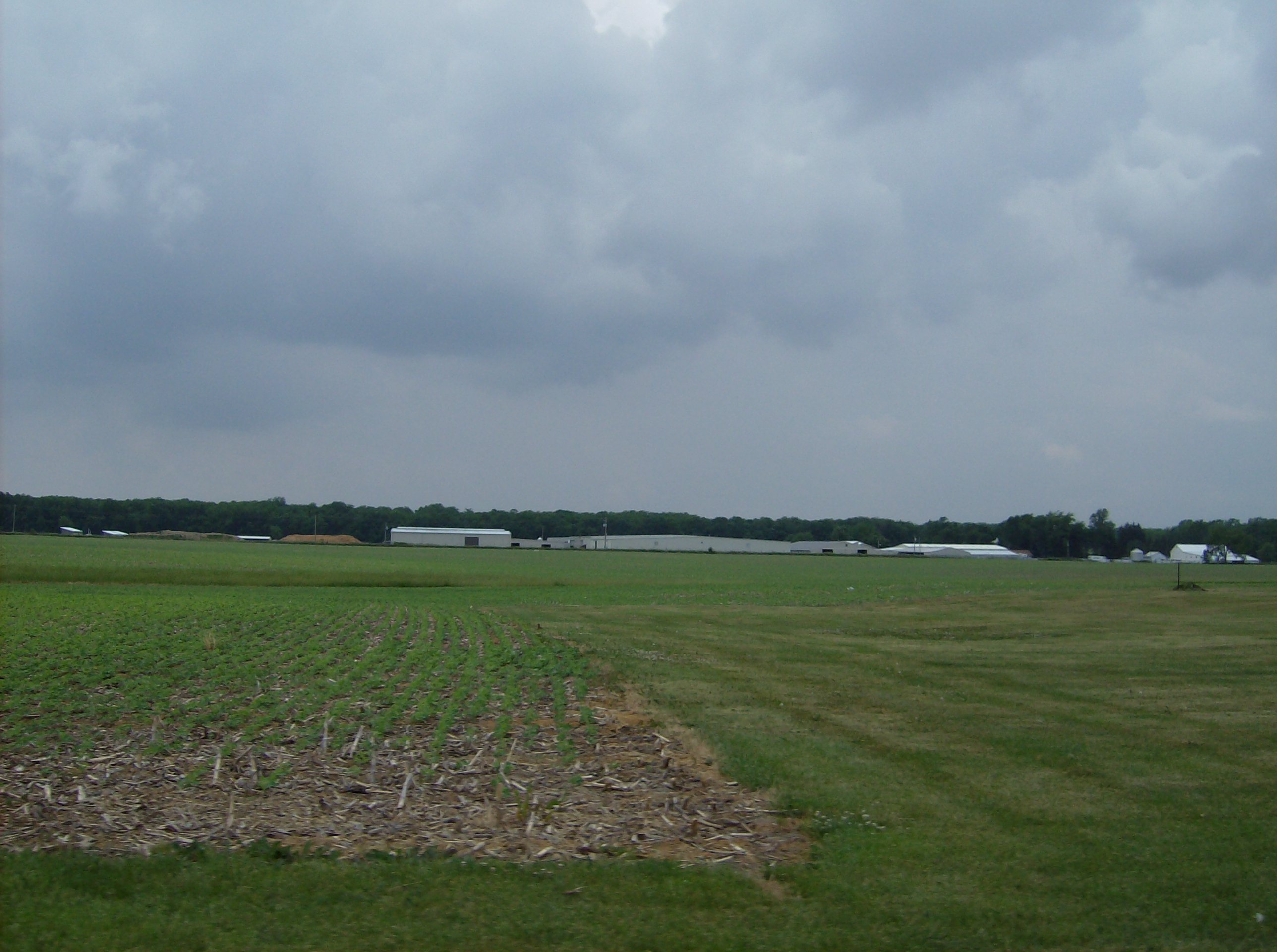 en}View of the University of Findlay stables in Eagle Township, Hancock County, Ohio, United States. Picture taken looking westward from U.S. Route 68, just south of the intersection with Township Road 40.